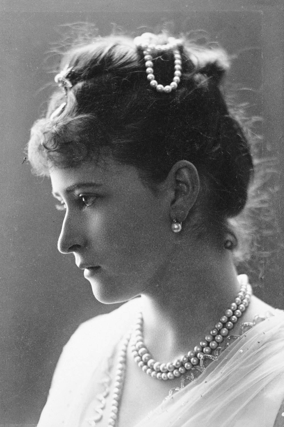 Princess Elizabeth of Hesse and by Rhine